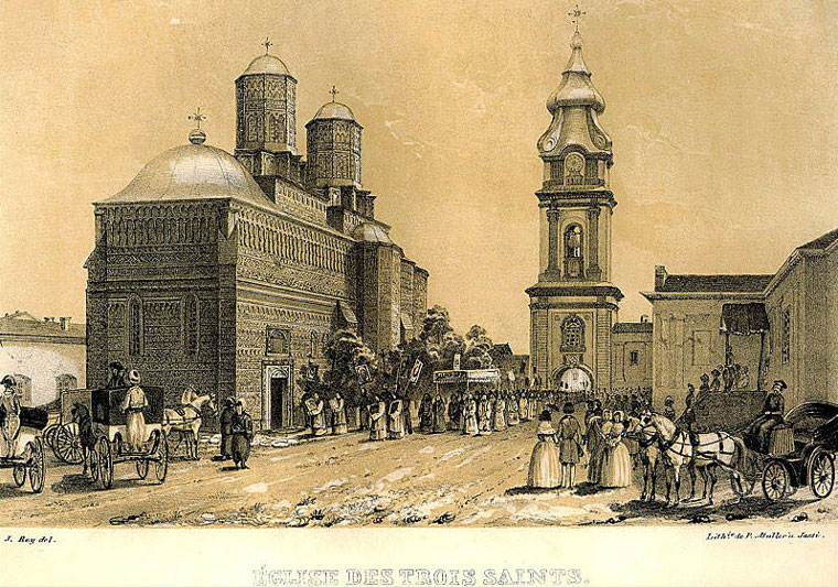 Iași (Jassy) - Three Holy Hierarchs Monastery in 1845Română: Iași - Mănăstirea Sfinții Trei Ierarhi la 1845